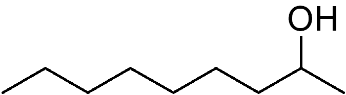 en:2-Nonanol